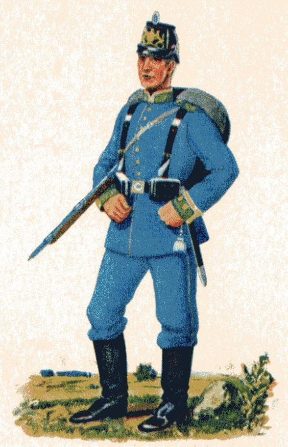 Royal Bavarian Jäger batallion No. 2 Aschaffenburg. Oberjäger (Corporal) in battle dress round about 1910